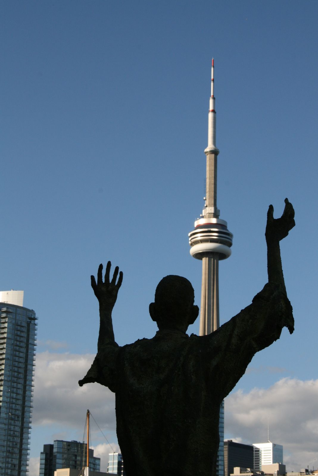 Ireland Park, Toronto, Ontario. THE IRELAND FUND OF CANADA Dedicates this sculpture [by Rowan Gillespie] to the generations of Irish who contribute to the celebration of their heritage in Canada.